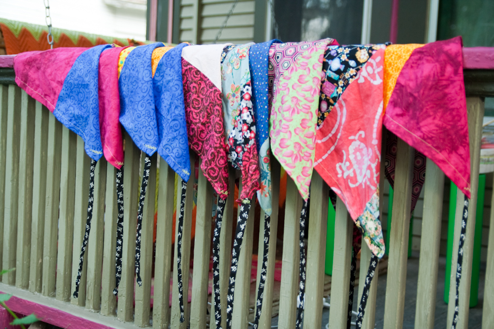 Patchwork Colorful Bandanas July 11, 20107